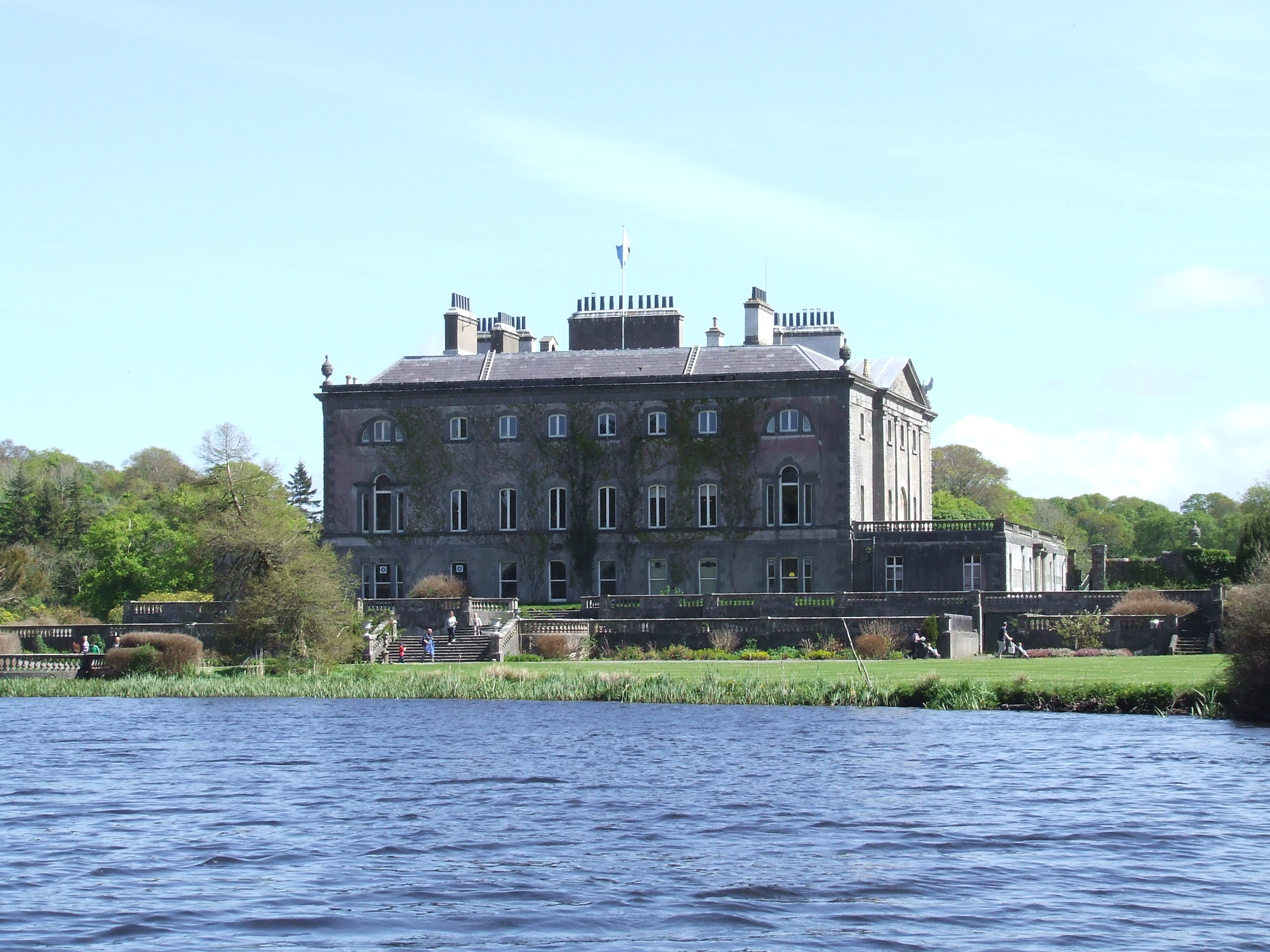 Westport House, home of the Marquis of Sligo. Viewed from the boating lake in front of the western elevation. Easter Sunday, 2011.